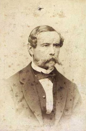 Danish general, politician, Minister of the Interior, Minister of War and the Royal Navy, MP Wolfgang Haffner (1810-1887)